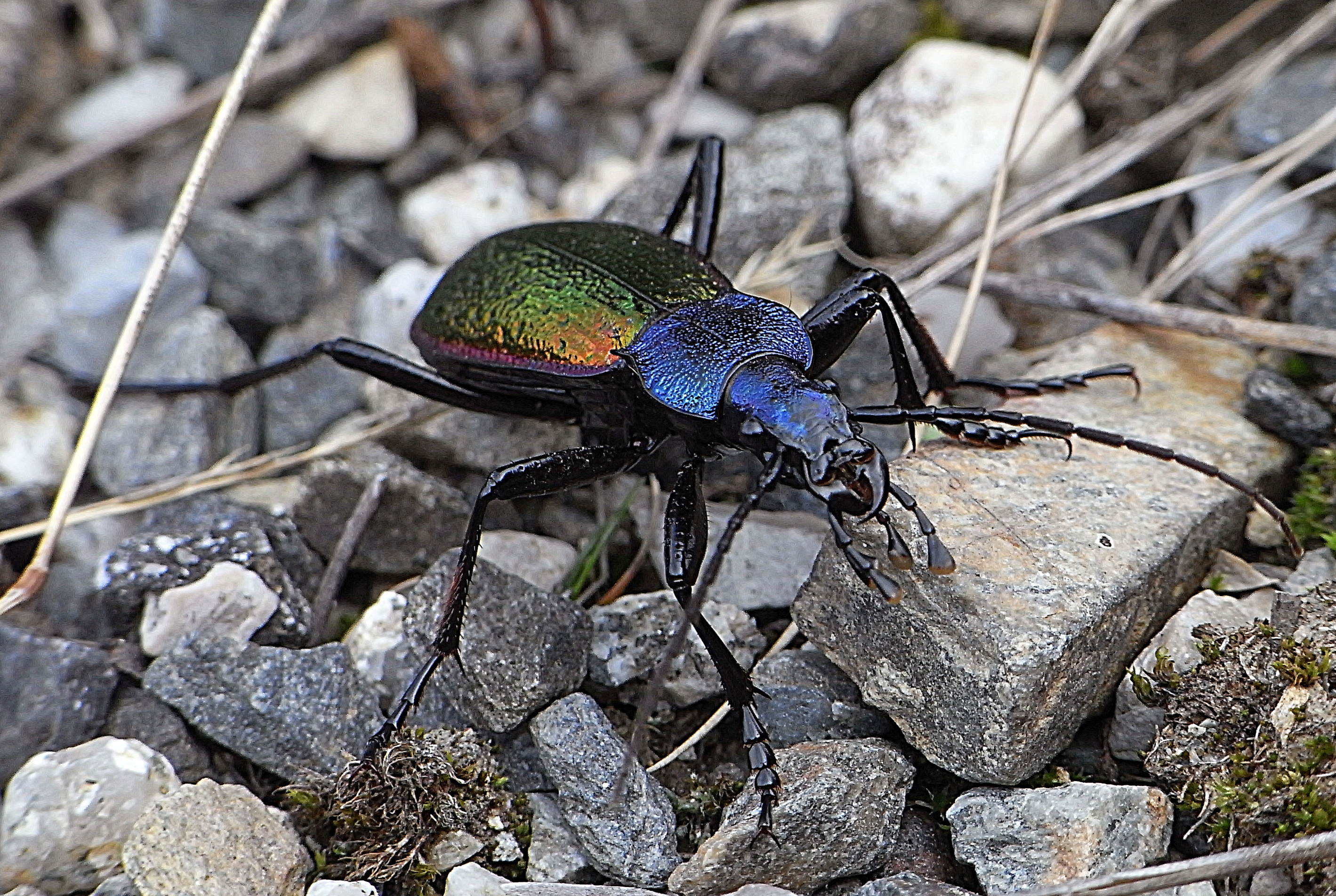 Carabus hispanus Ricoh R8